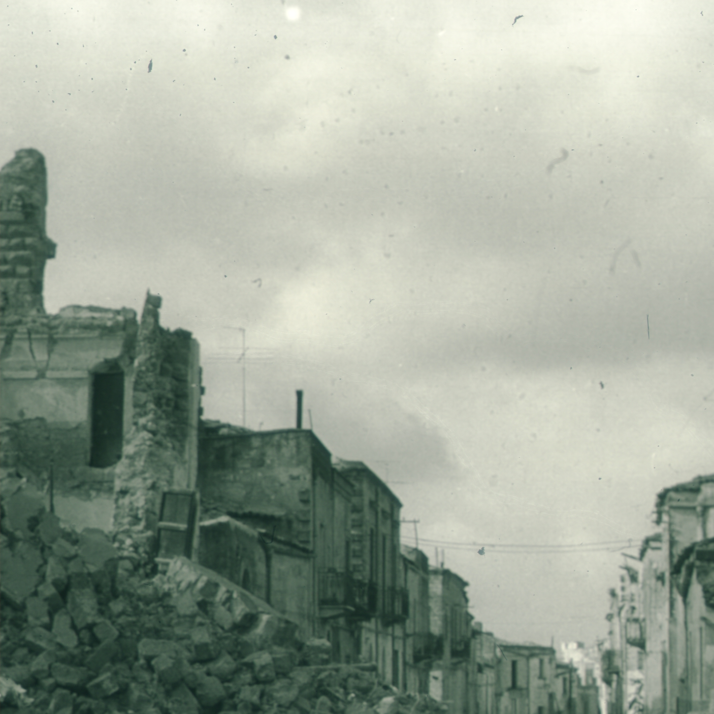 1968 in Italy (fro Red Cross convoy)